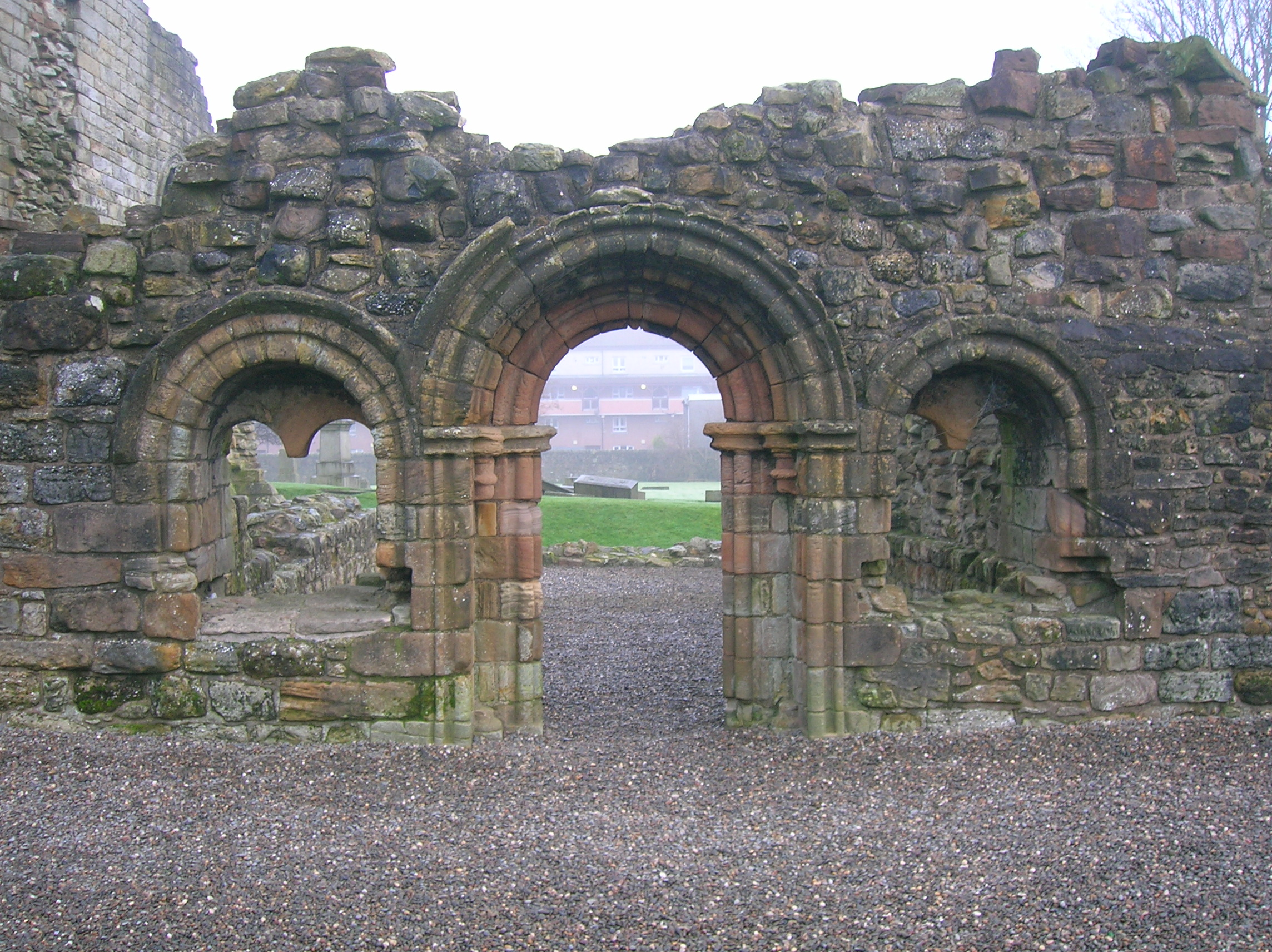 Chapter House ruins, Kilwinning Abbey, North Ayrshire, Scotland.